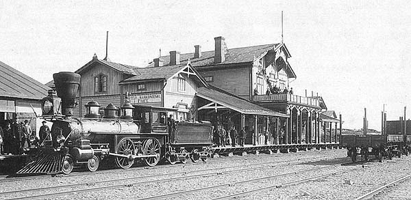 A steam locomotive at Hanko railway station in Hanko, Finland, in 1893